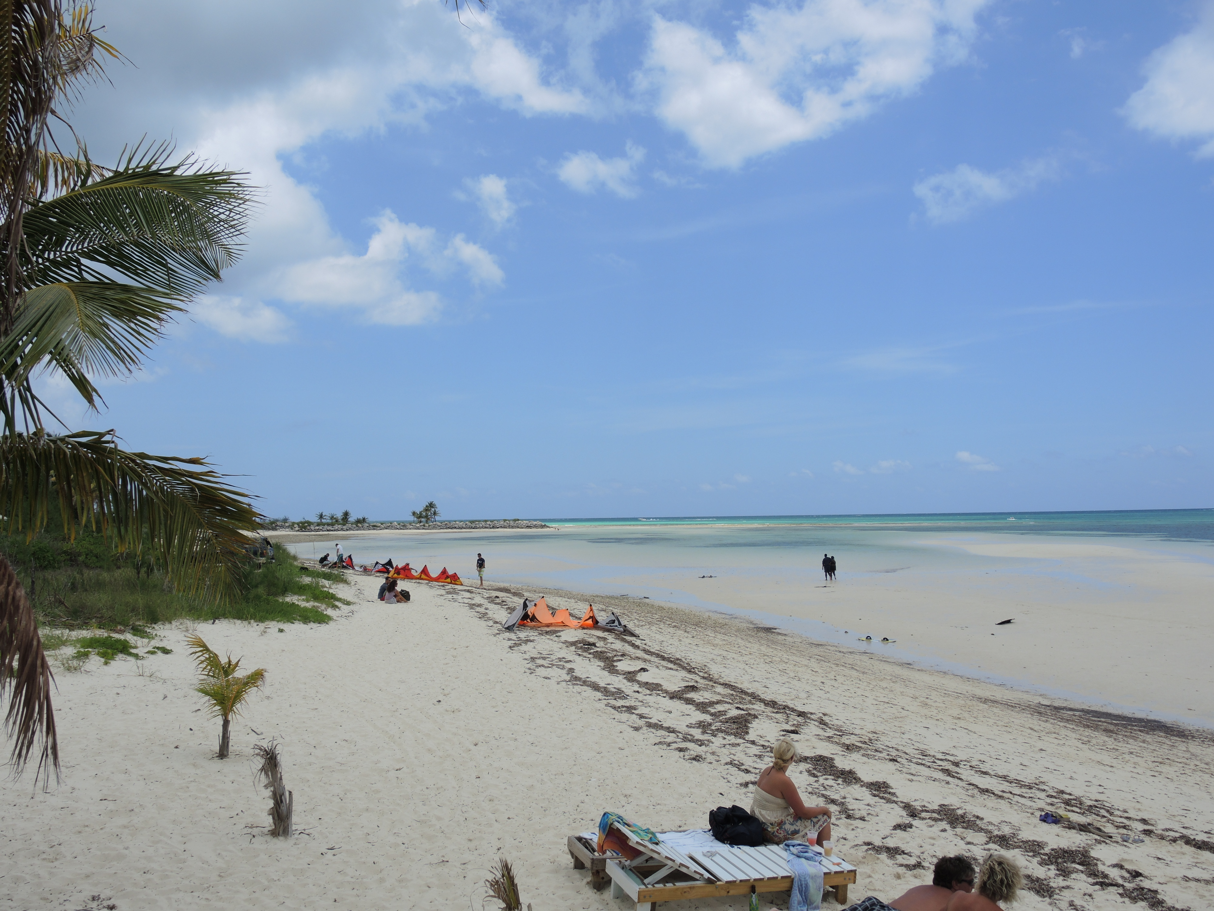 Banana Bay Freeport